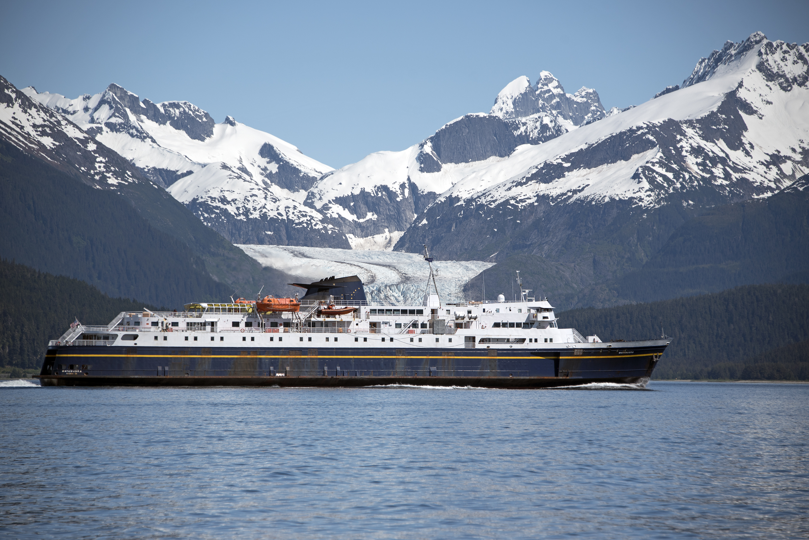 Alaska Marine Highway ferry m/v Matanuska passing the Herbert Glacier, north of Juneau - Southeast Alaska.